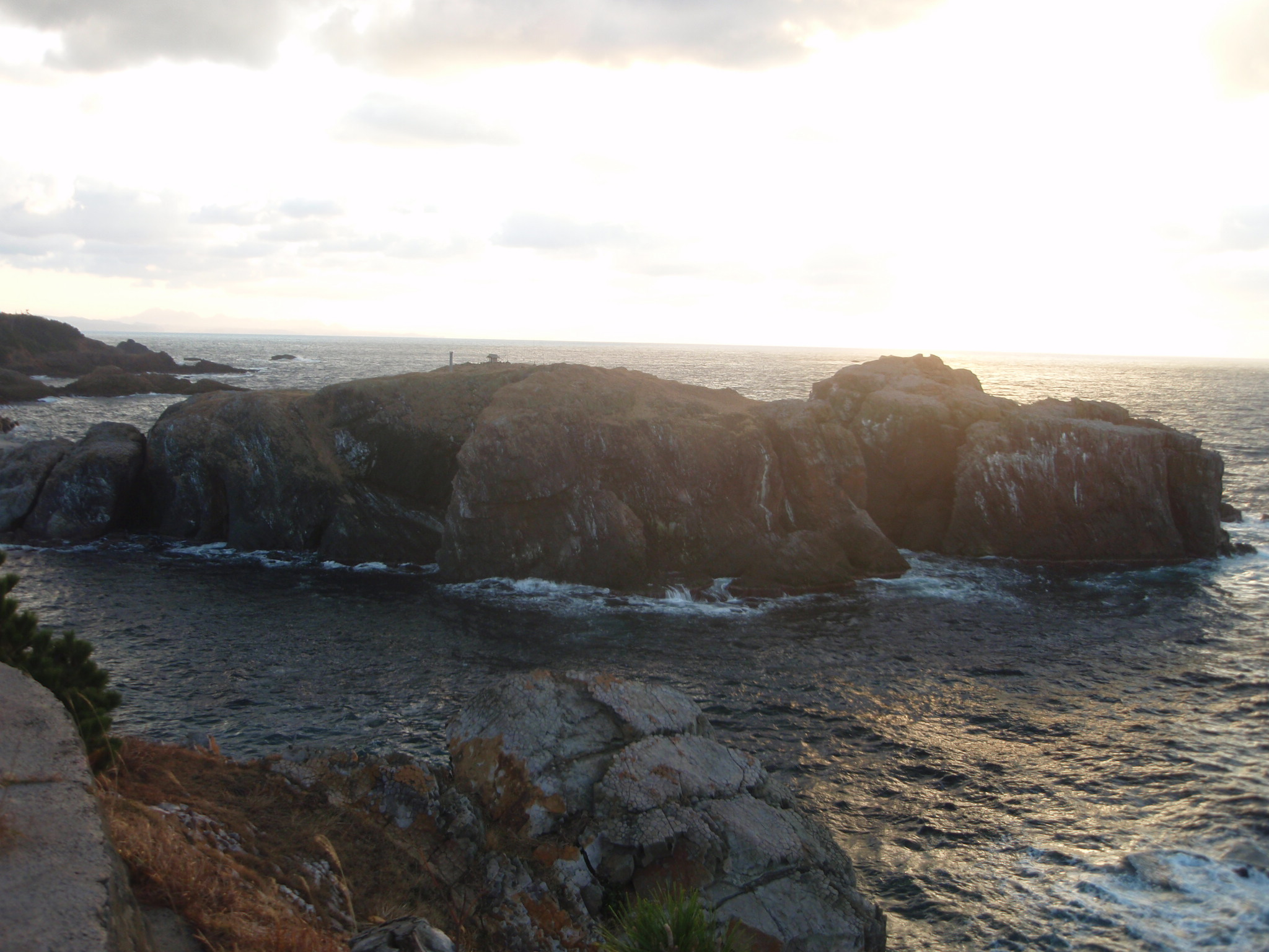 Fumishima, Izumo city, Shimane prefecture